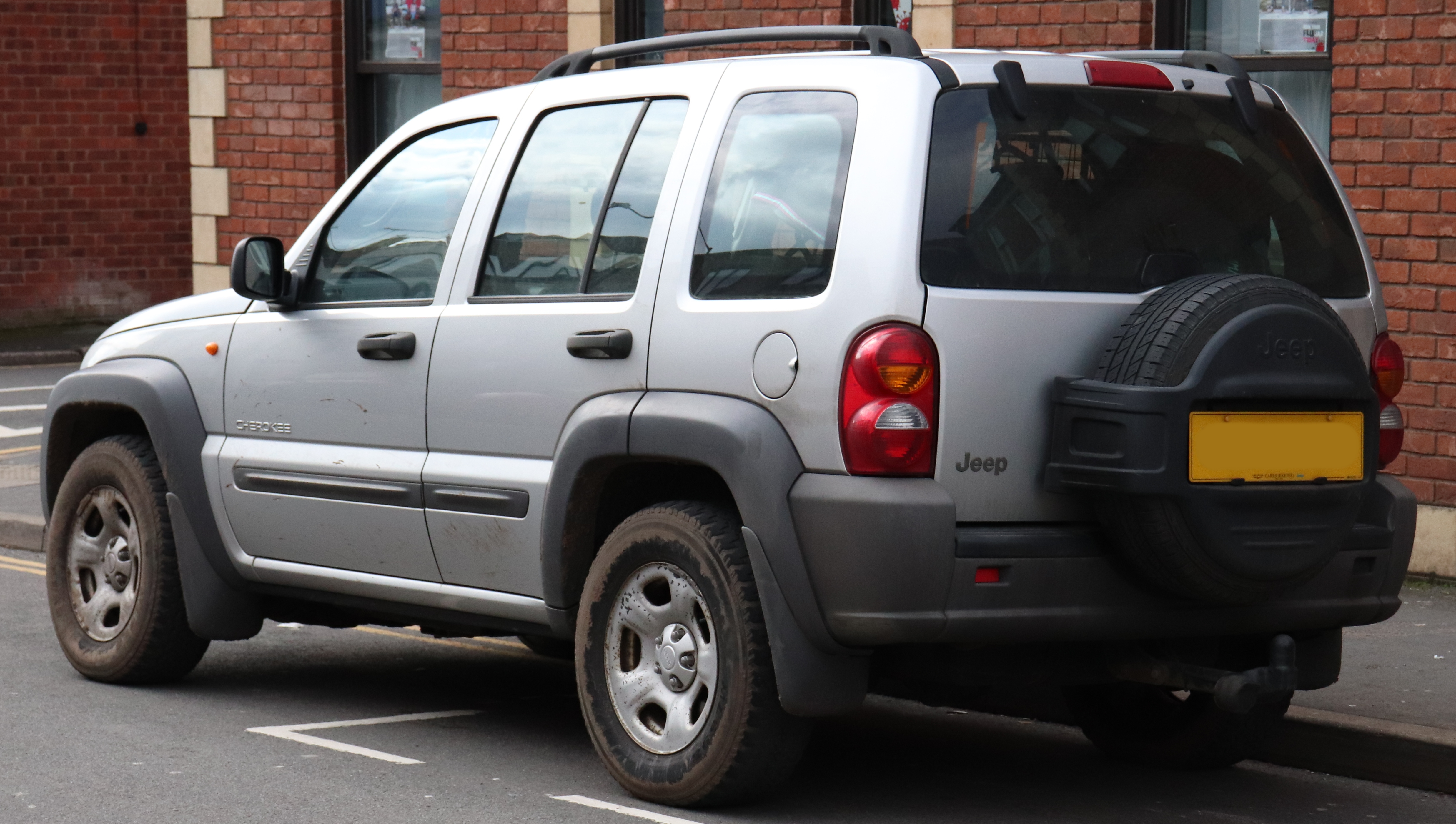 2004 Jeep Cherokee CRD Sport 2.5 Rear Taken in Leamington Spa